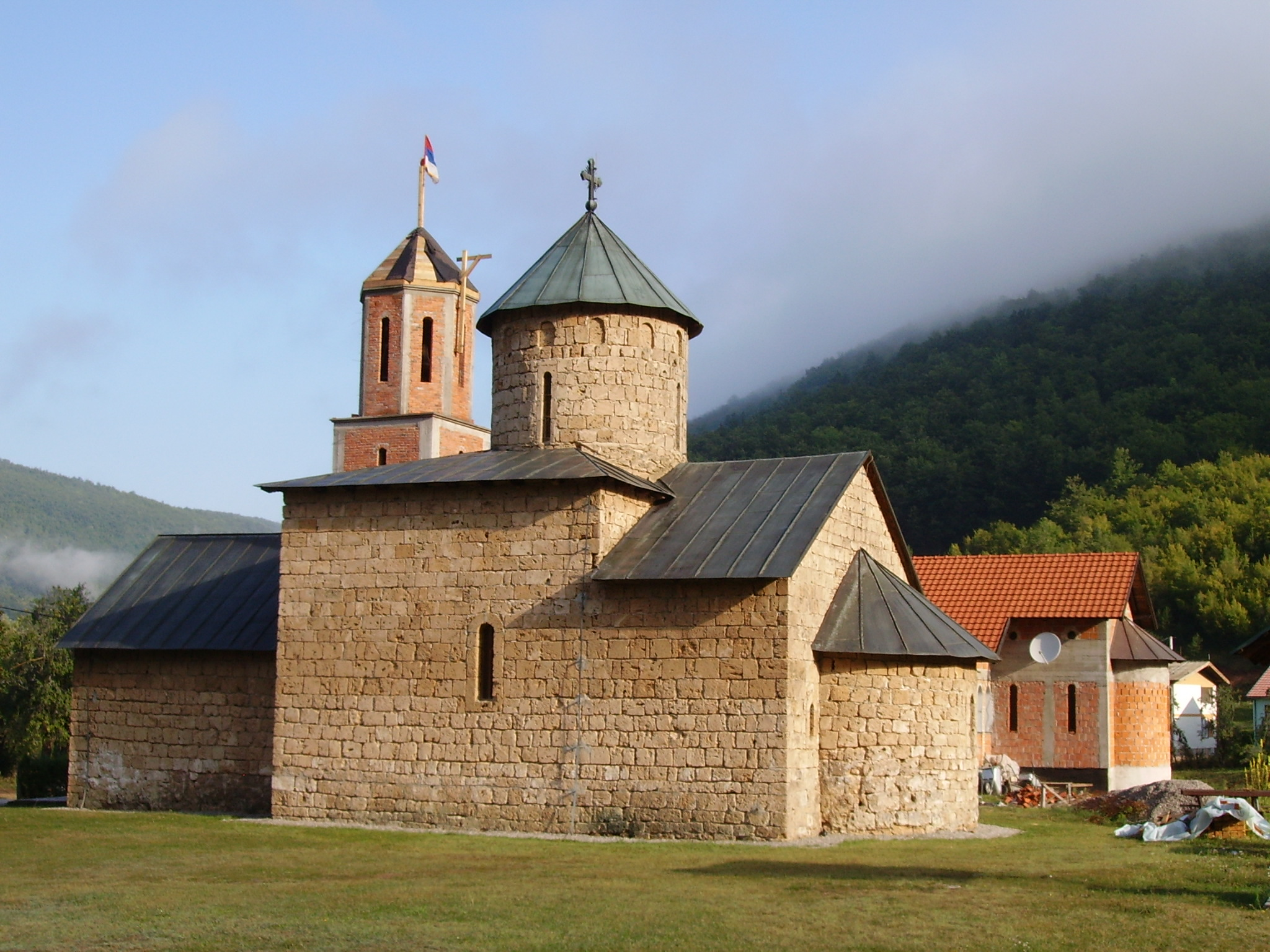 Serbian-orthodox monastery in Martin Brod, Bosnia.